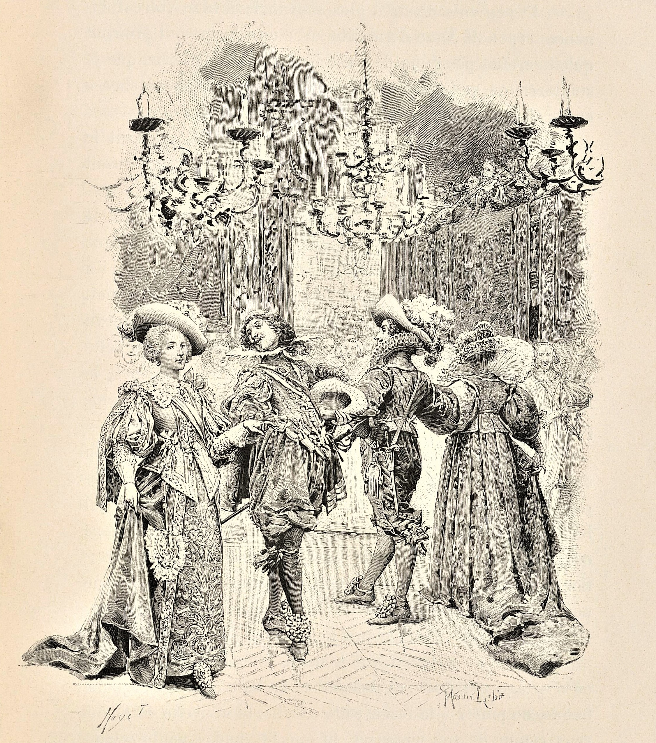 An illustration for The Three Musketeers by Alexandre Dumas, père. Volume I, Chapter XXII: The ballet of La Merlaison.